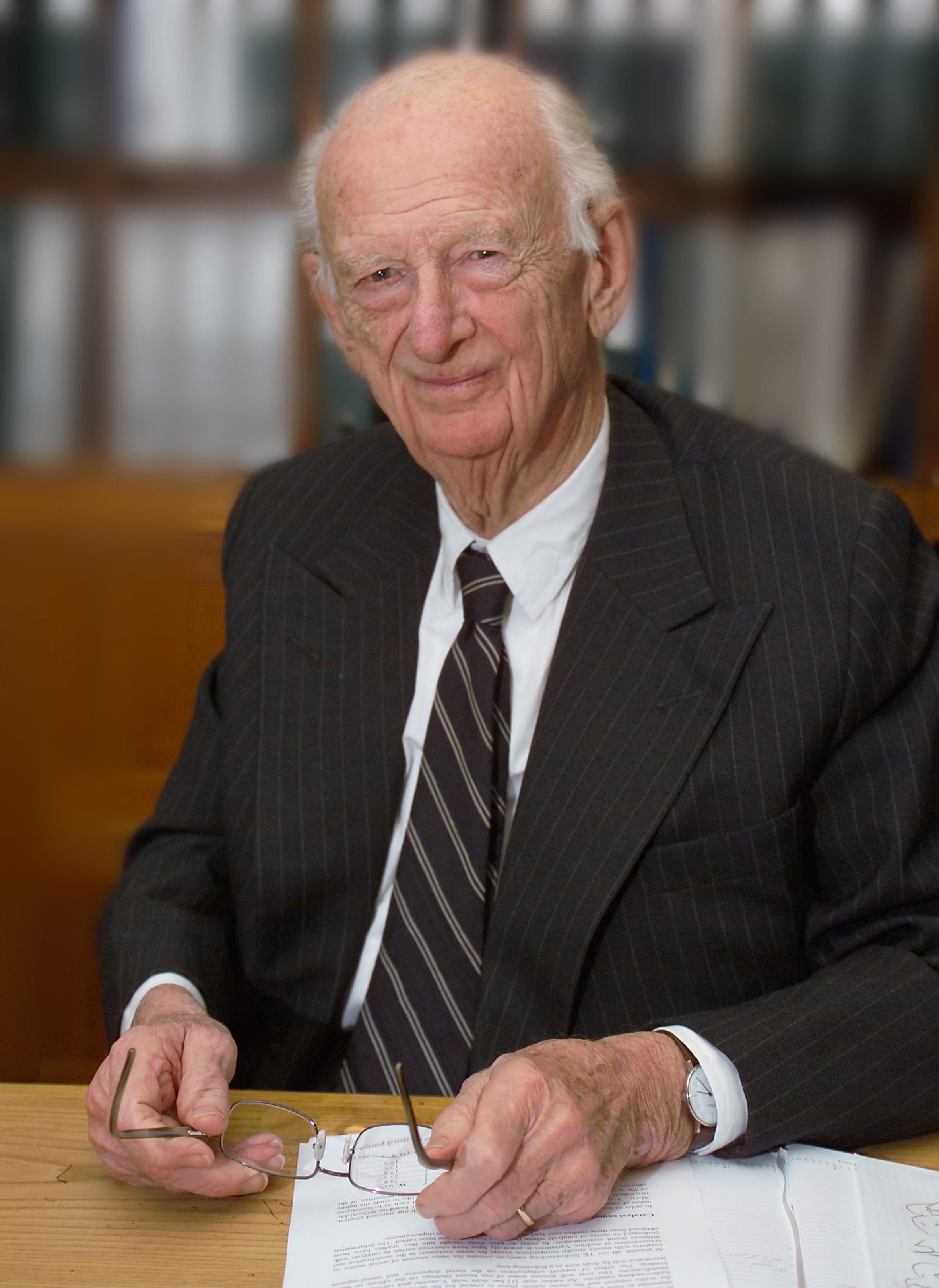 Photograph of Haldor Topsøe, chemist and recipient of the 2008 Winthrop-Sears Medal, presented May 15, 2008, at Heritage Day, Chemical Heritage Foundation, Philadelphia, PA, USA.